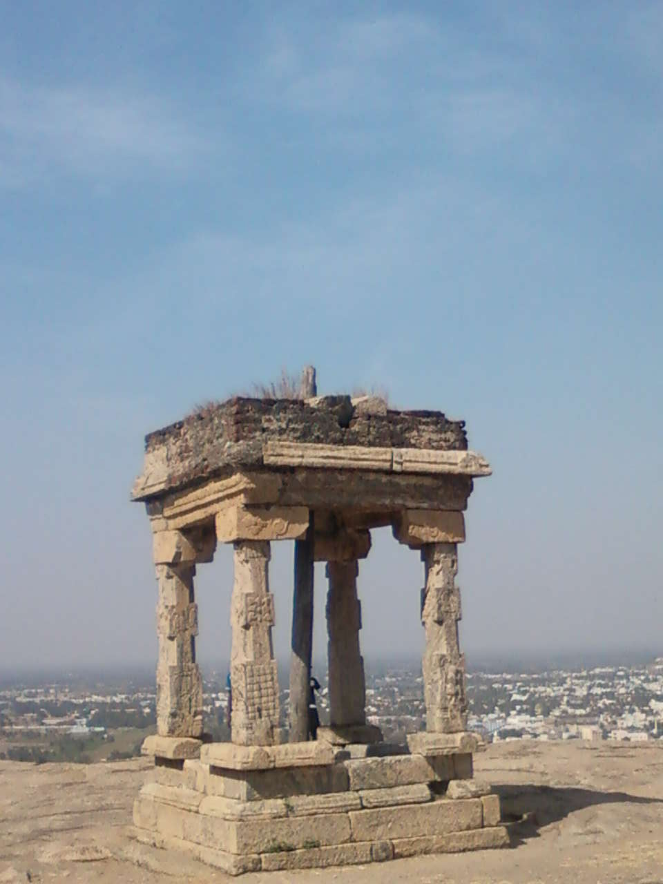 A mantapam in Didndigul fort constructed on huge monolithic hillock.